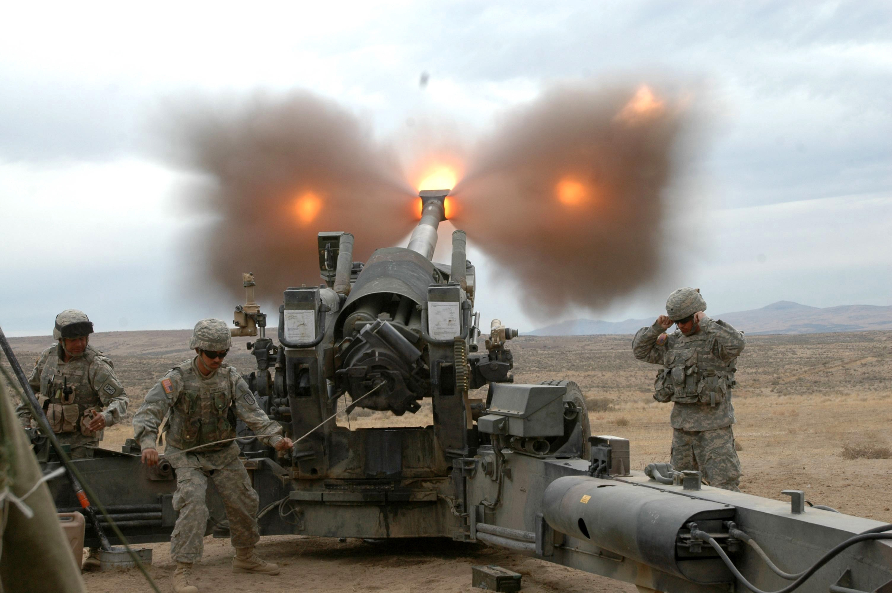 Soldiers with Charlie Battery, 1-377 FA fire an M198, 155mm howitzer during a recent combined live-fire exercise. More on the M198 at Army.mil See more at Army.mil